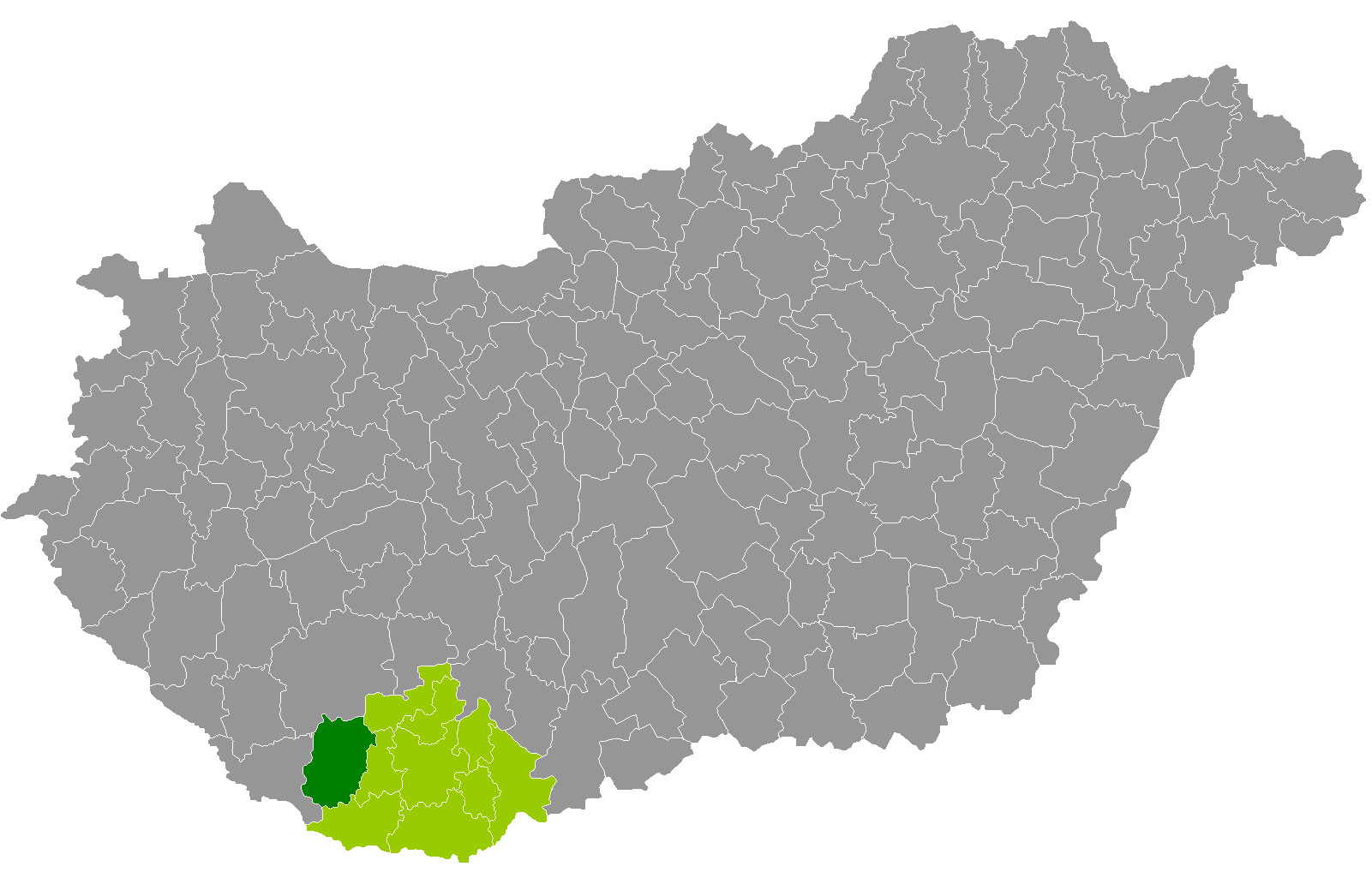 Location of Szigetvár District, Baranya, Hungary